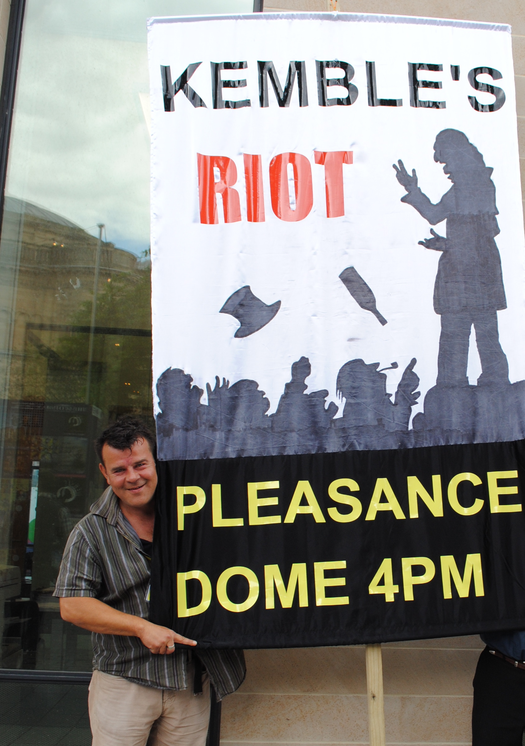 I took this photograph outside the Pleasance Dome in Edinburgh on 2 August 2012